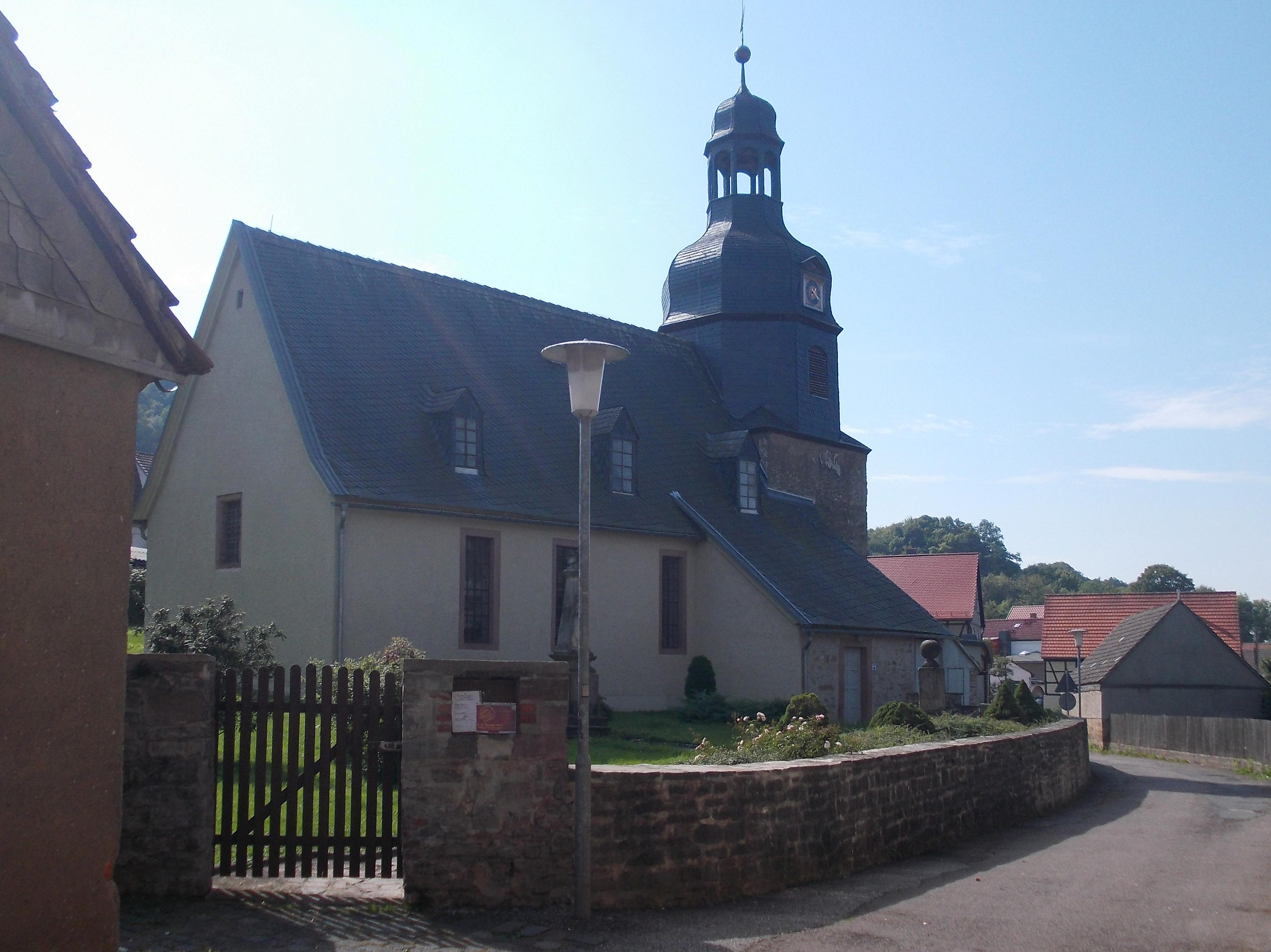 The church St. Maurice in Pölsfeld (Allstedt, Mansfeld-Südharz district, Saxony-Anhalt)